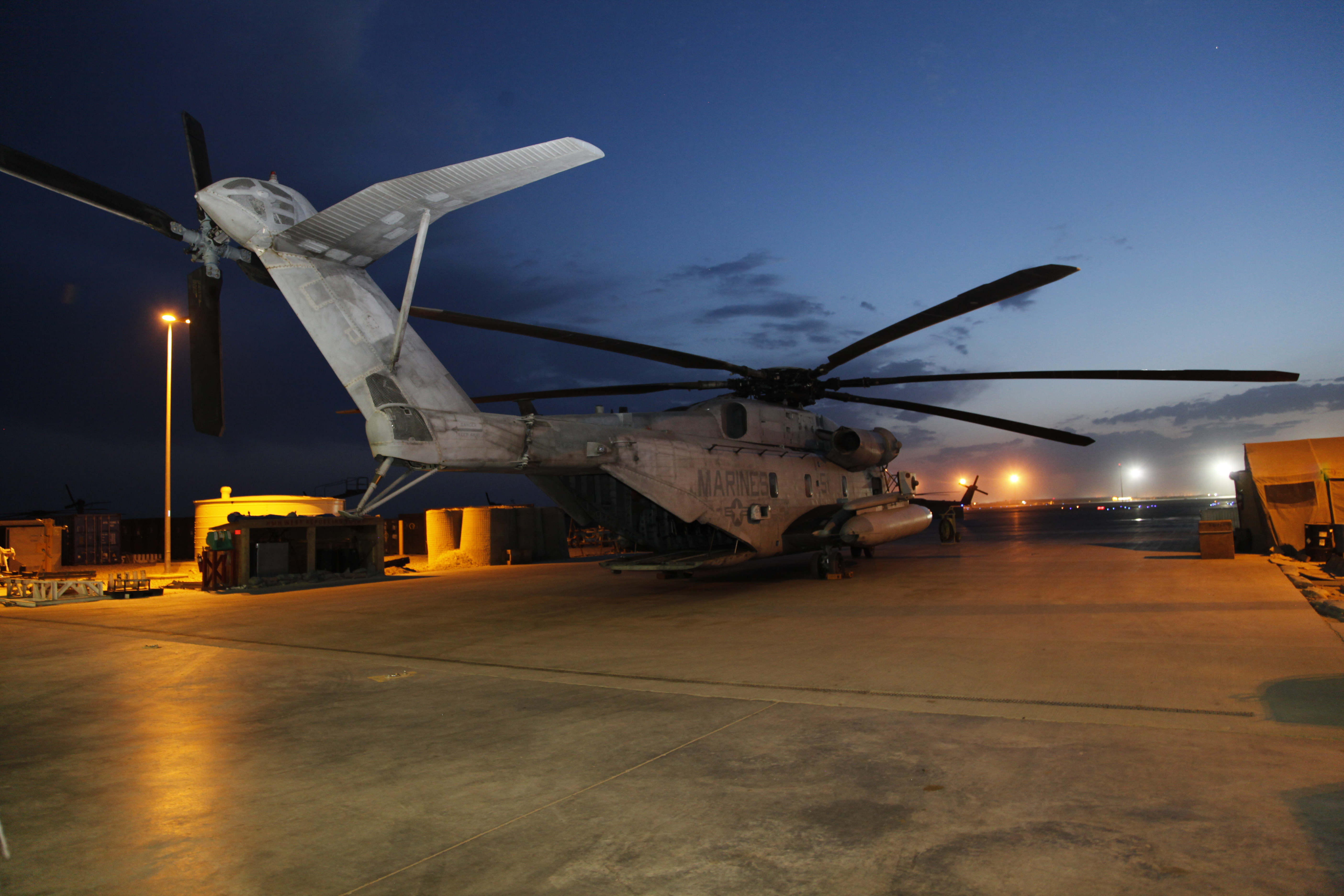 Dusk falls over a U.S. Marine Corps CH-53E Super Stallion helicopter at Camp Bastion in Helmand province, Afghanistan, May 6, 2013.